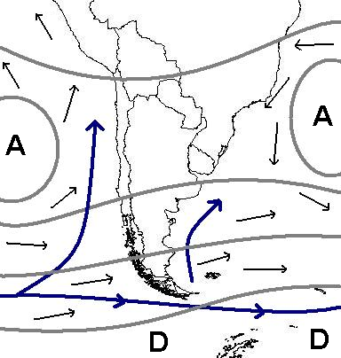 Weather maps showing the usual position of weather system around the southern part of South America.